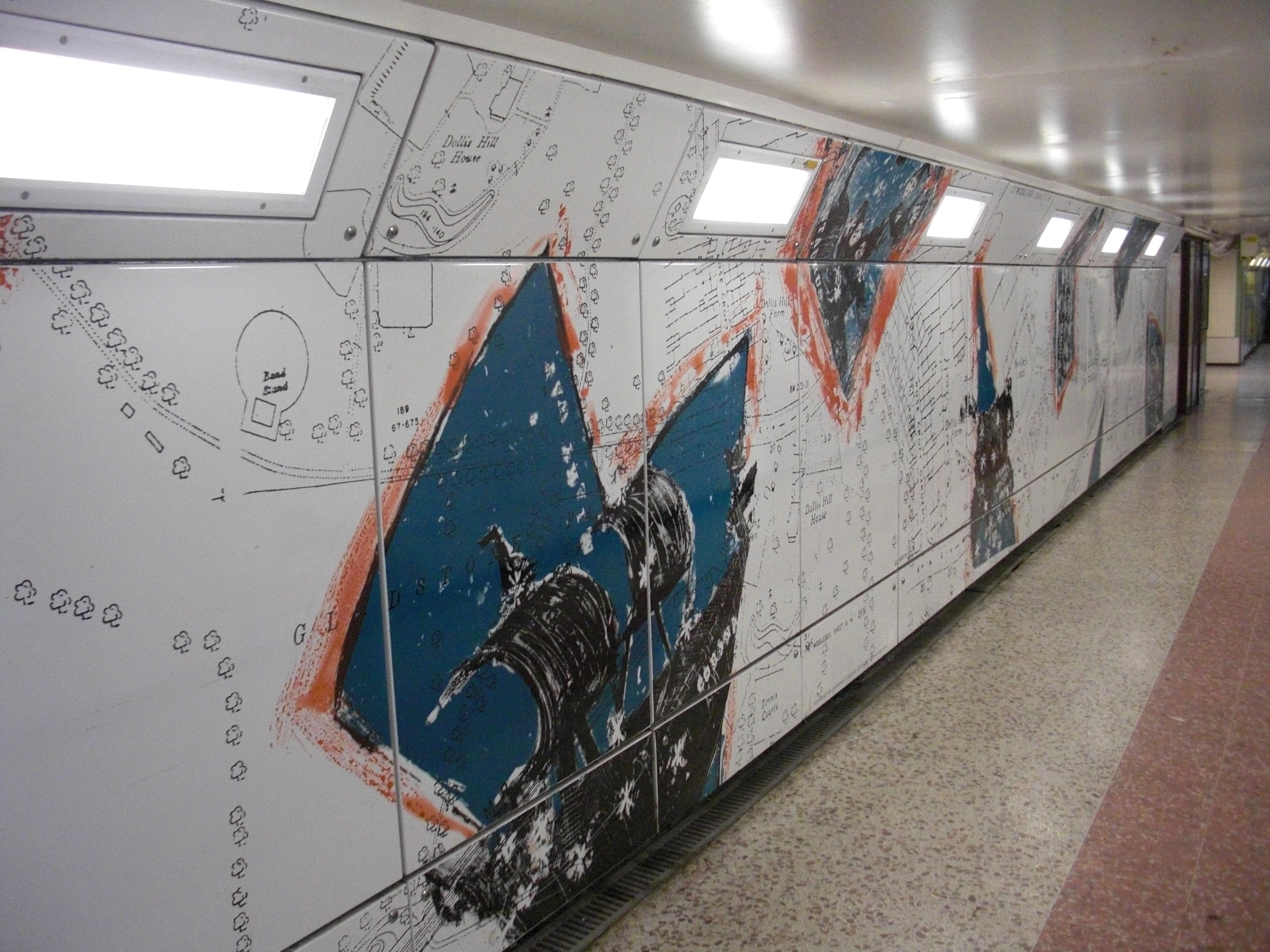 One set of the enamel panels in the subway at Dollis Hill tube station. They were designed by Amanda Duncan in 1995.